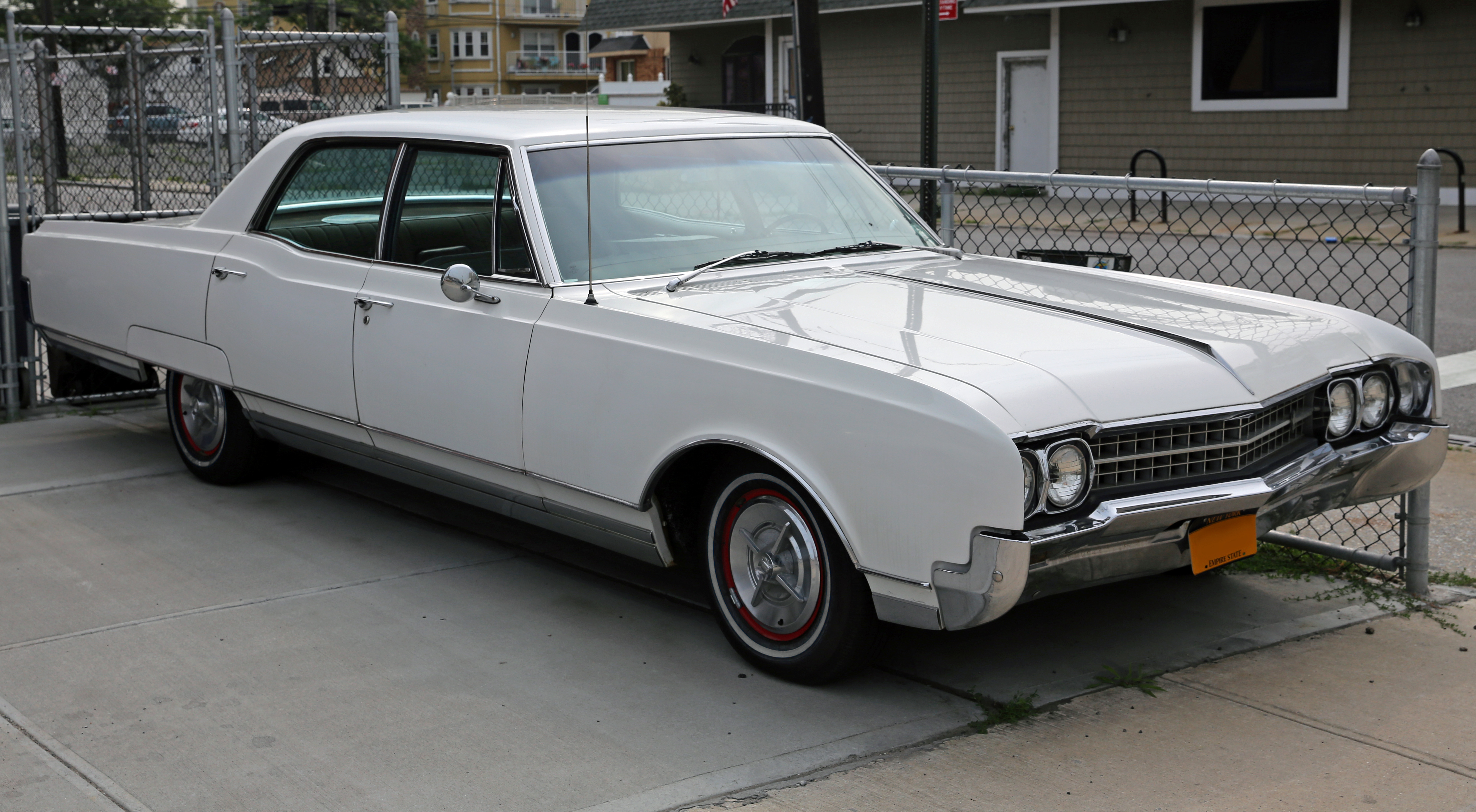 A 1966 Oldsmobile Ninety Eight Luxury Sedan, assembled in Lansing, MI.